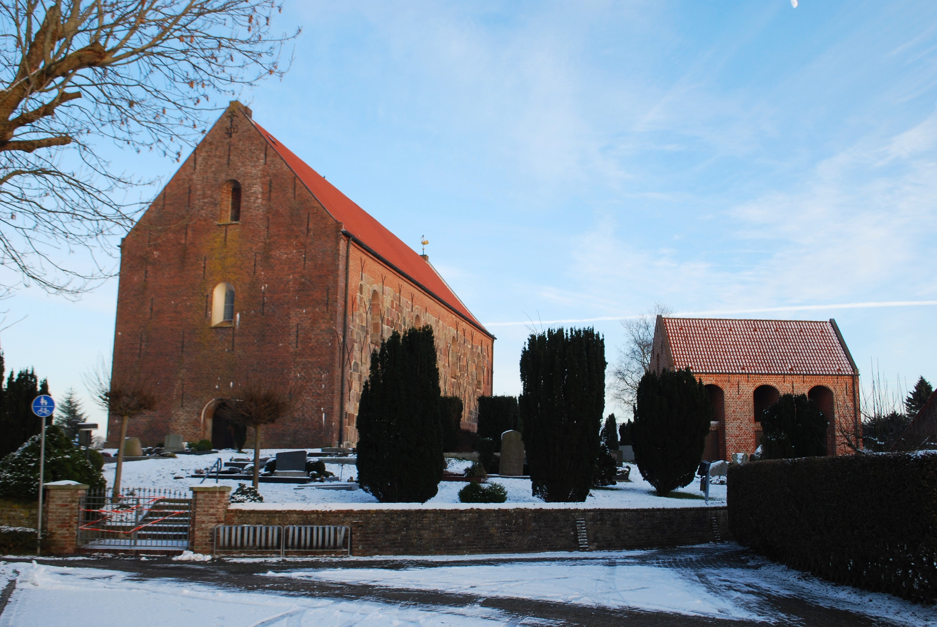 Church of Minsen, Minsen, Wangerland, Germany